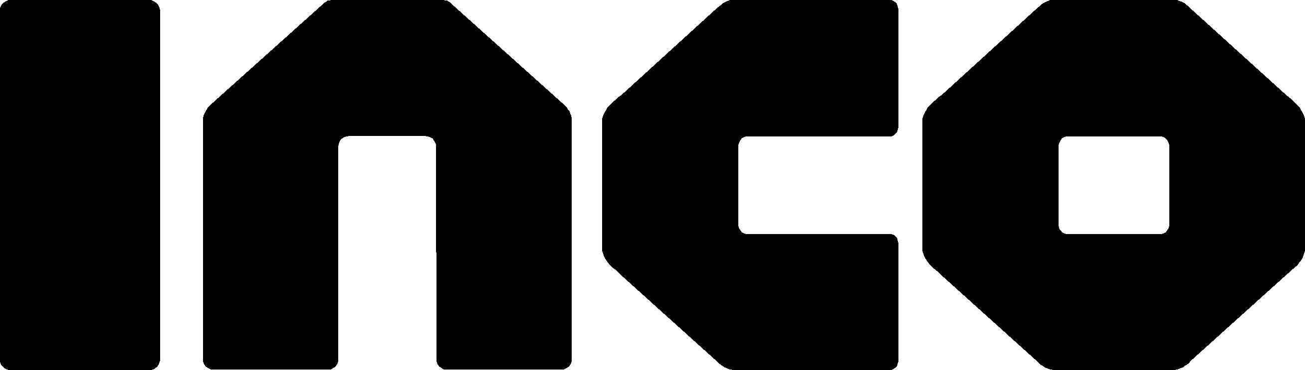 Logo of defunct mining company Inco, now Vale Inco.